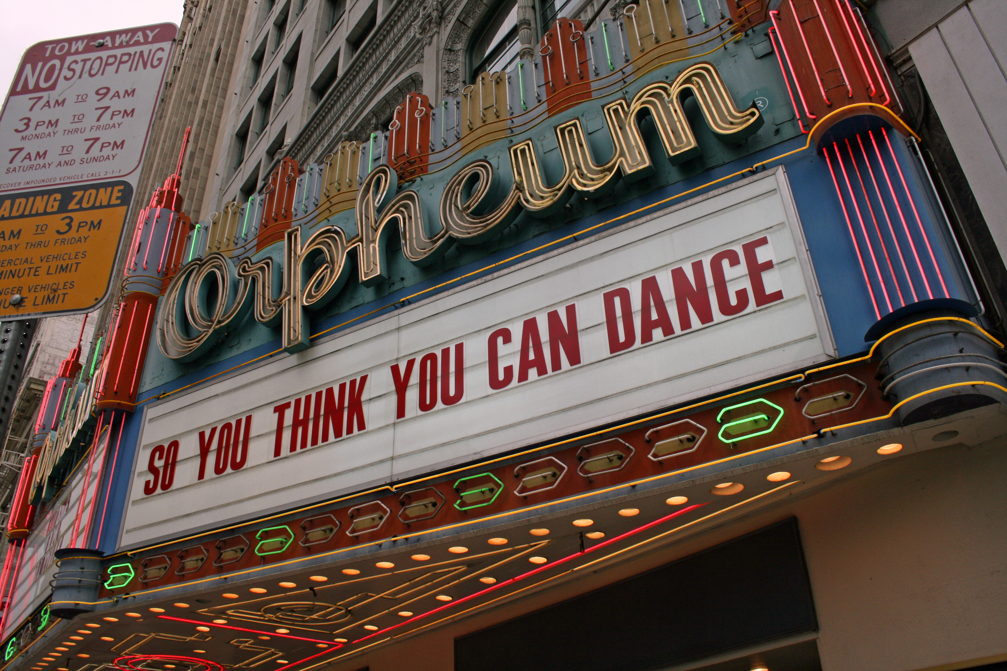 SYTYCD audition photo